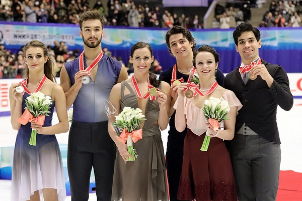 Ice Dance winners at the 2016 NHK Trophy